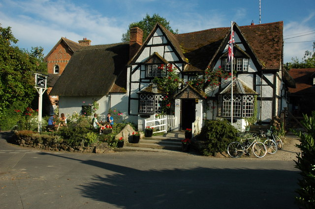 White Horse Inn, Woolstone, Oxfordshire, seen from the north